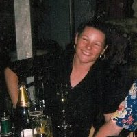 A photo of filmmaker Oorlagh George.